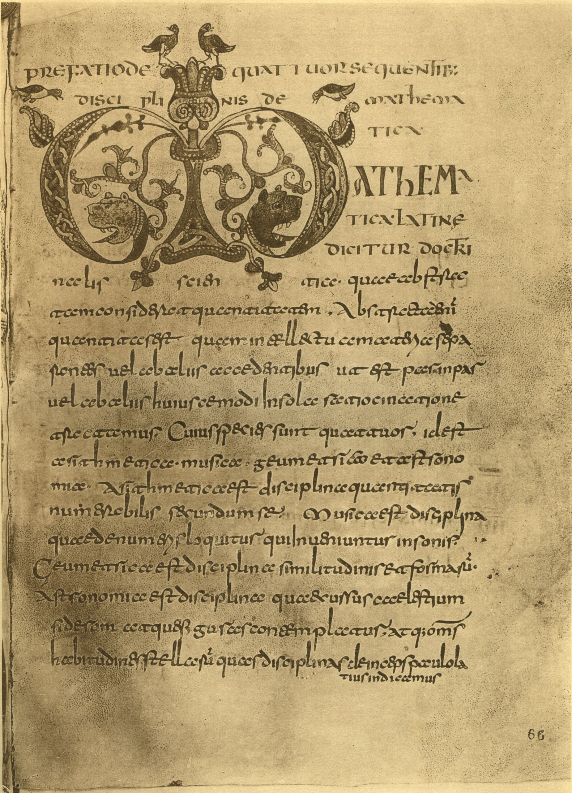 Isidore of Seville, Etymologiae, in ms. Vercelli, Biblioteca capitolare, CCII, fol. 66r.